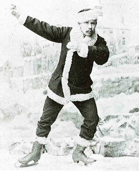 Norwegian figure skater Axel Paulsen.